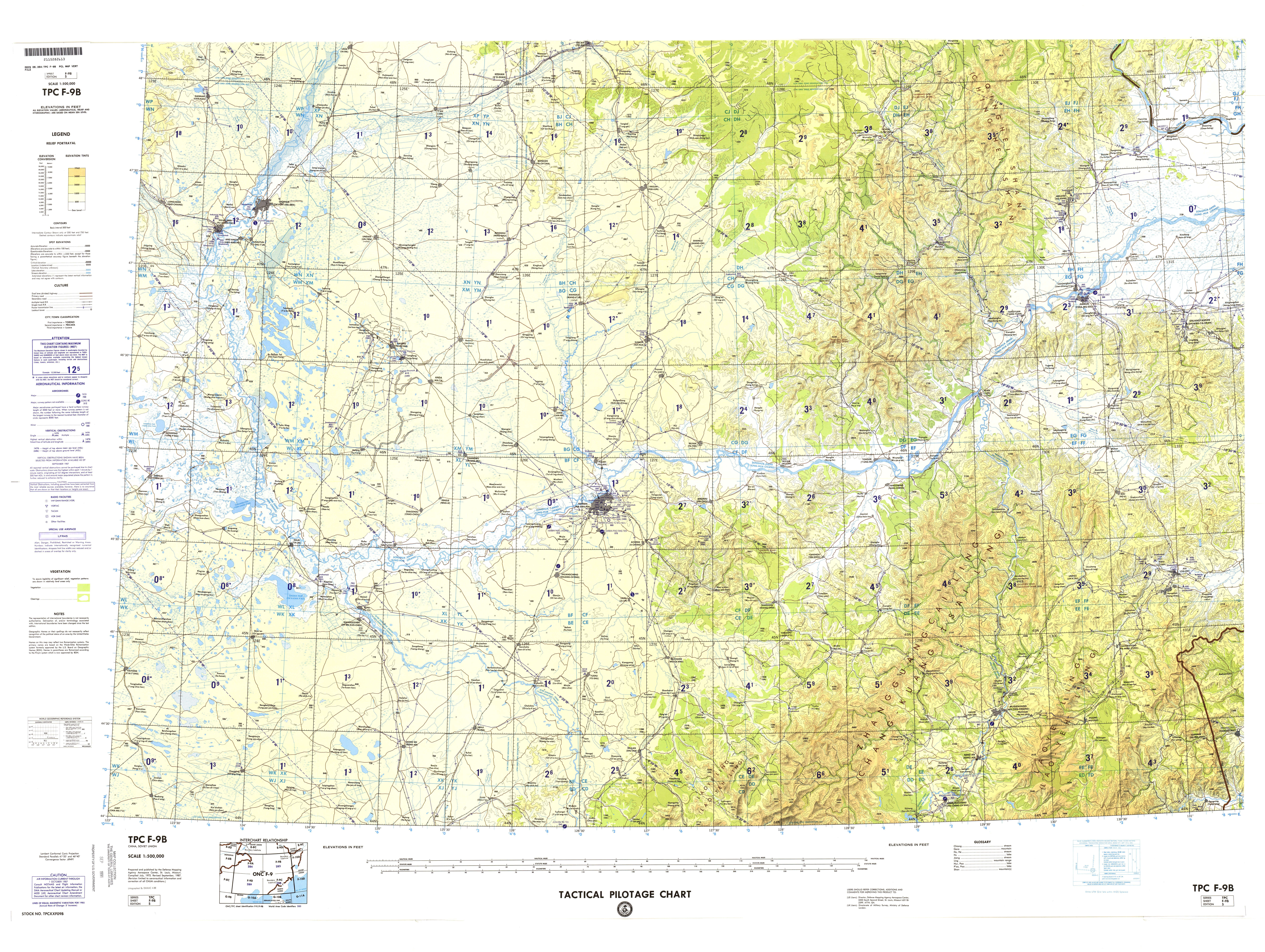 Tactical Pilotage Chart Series - World 1:500,000 Scale